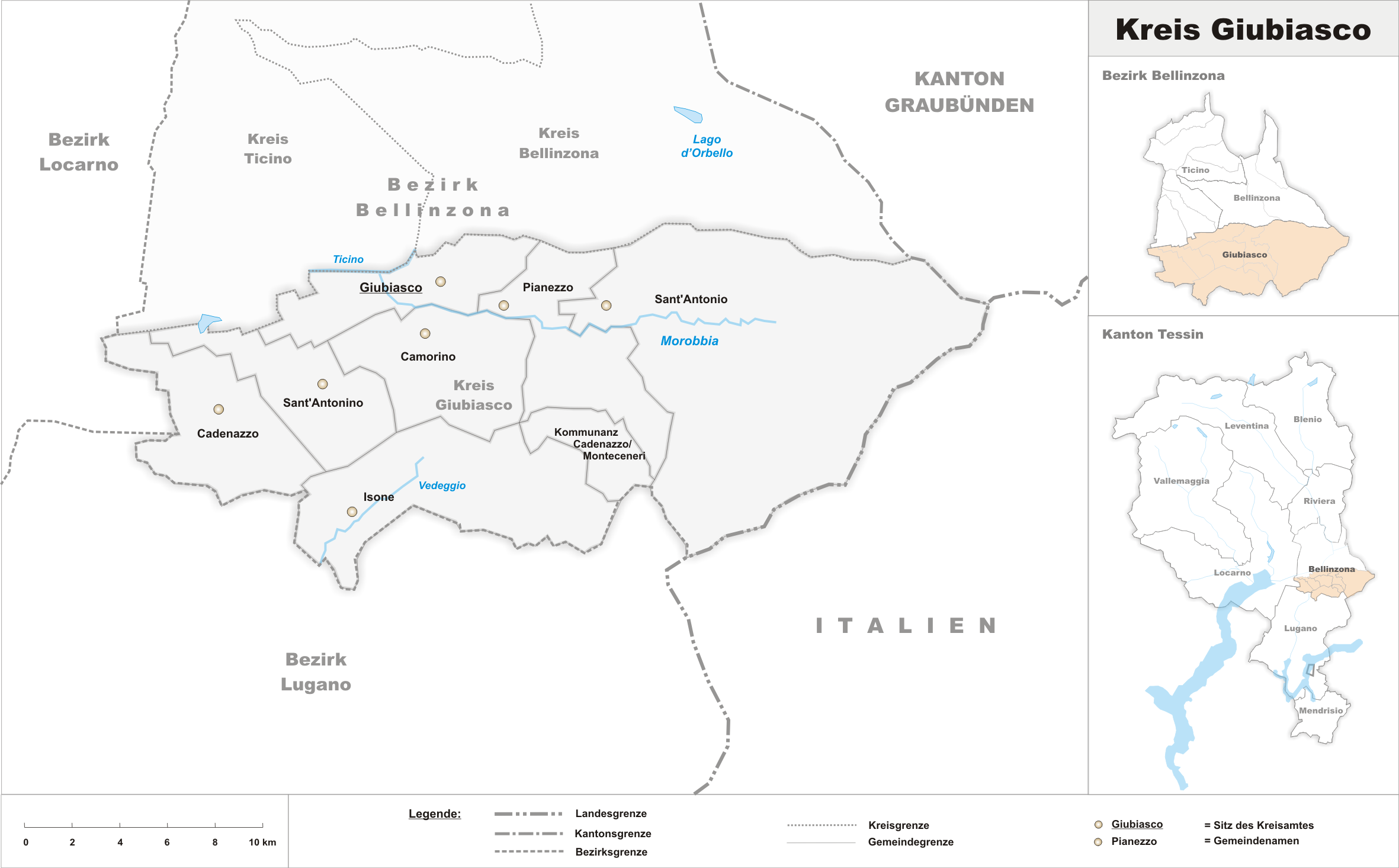 Municipalities in the circle of Giubiasco